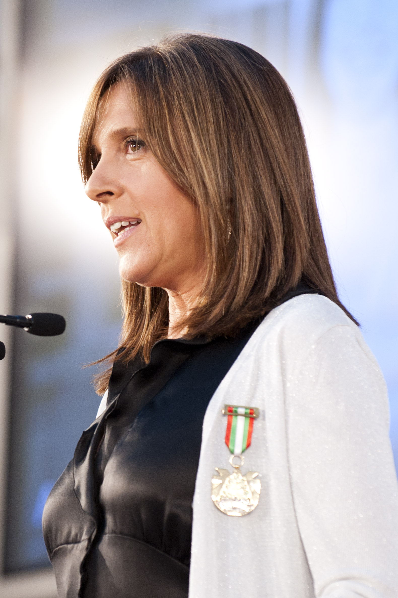 Ana Blanco, Spanish TV presenter.